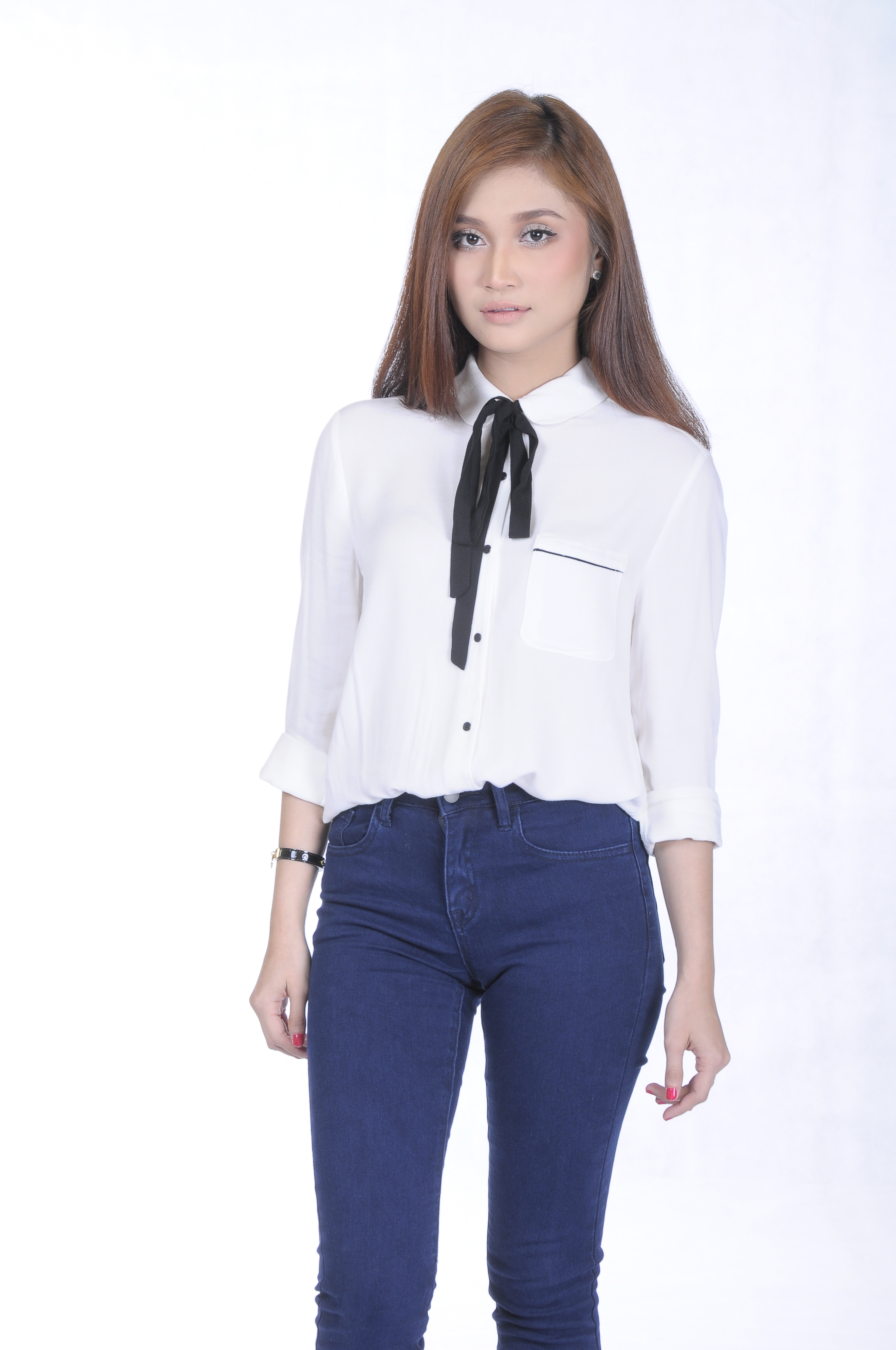 Ayda Jebat, wajah tonton